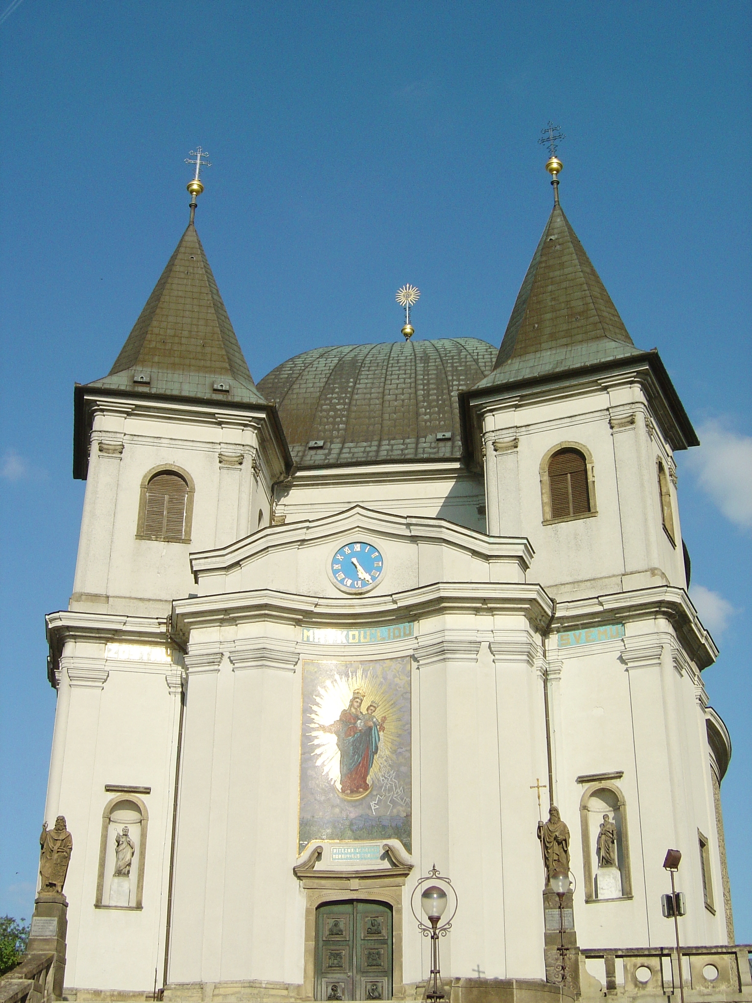 The Church Svatý Hostýn on Hostýnská hora hill.